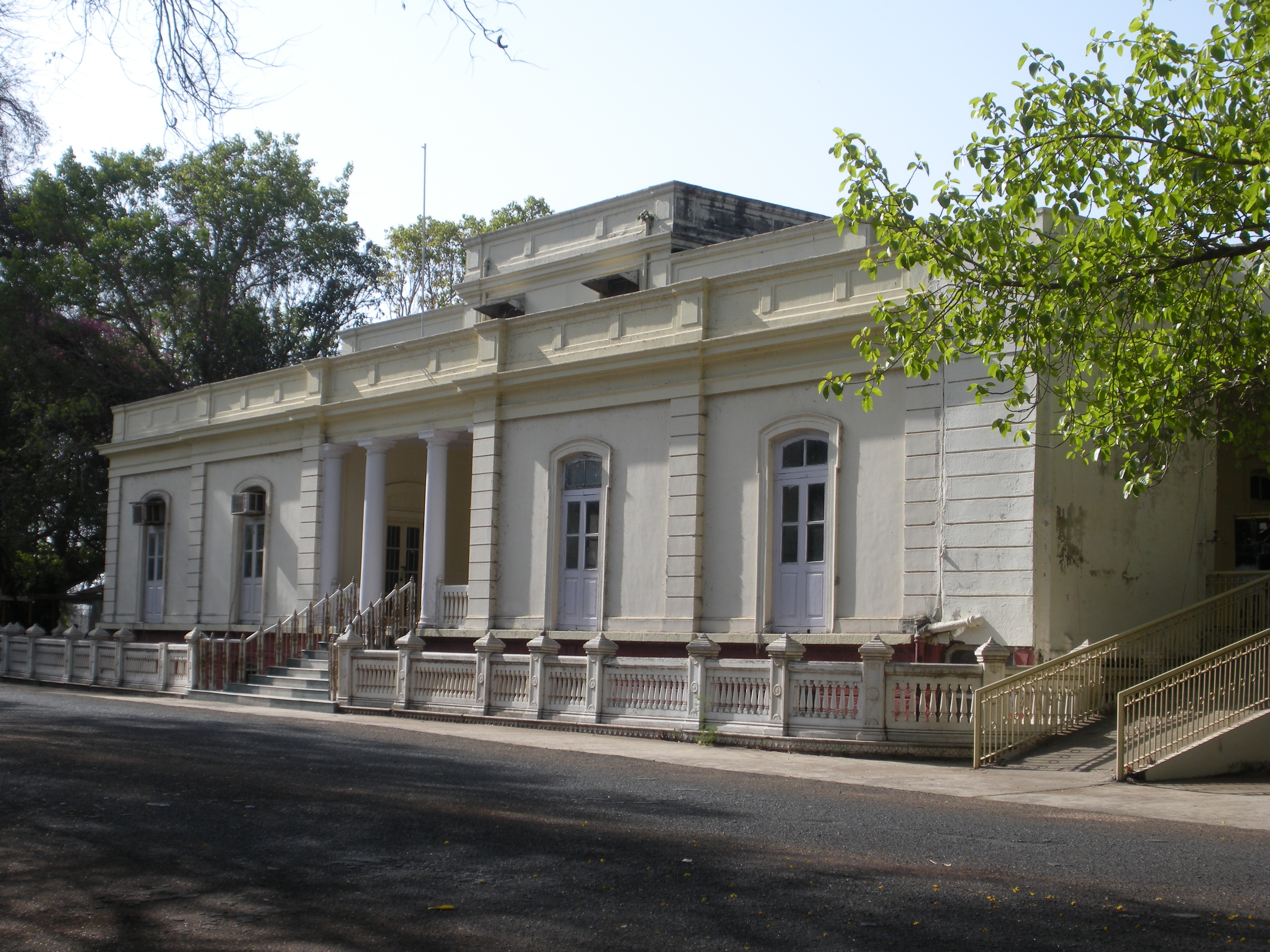 Sukhnivas Palace near RRCAT, Holkar dynasty of Indore